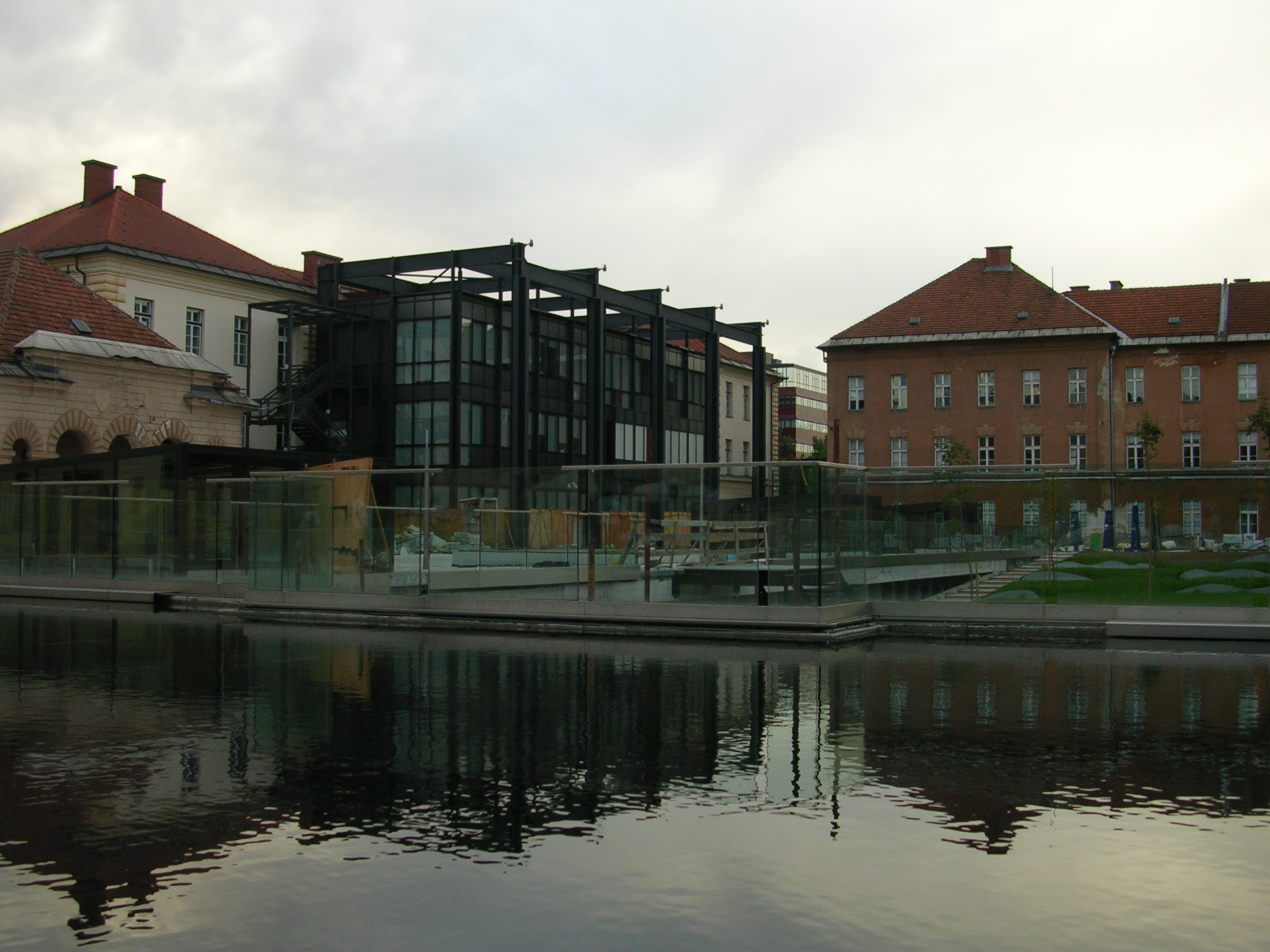 The so called cultural centre Metelkova in Ljubljana, Slovenija